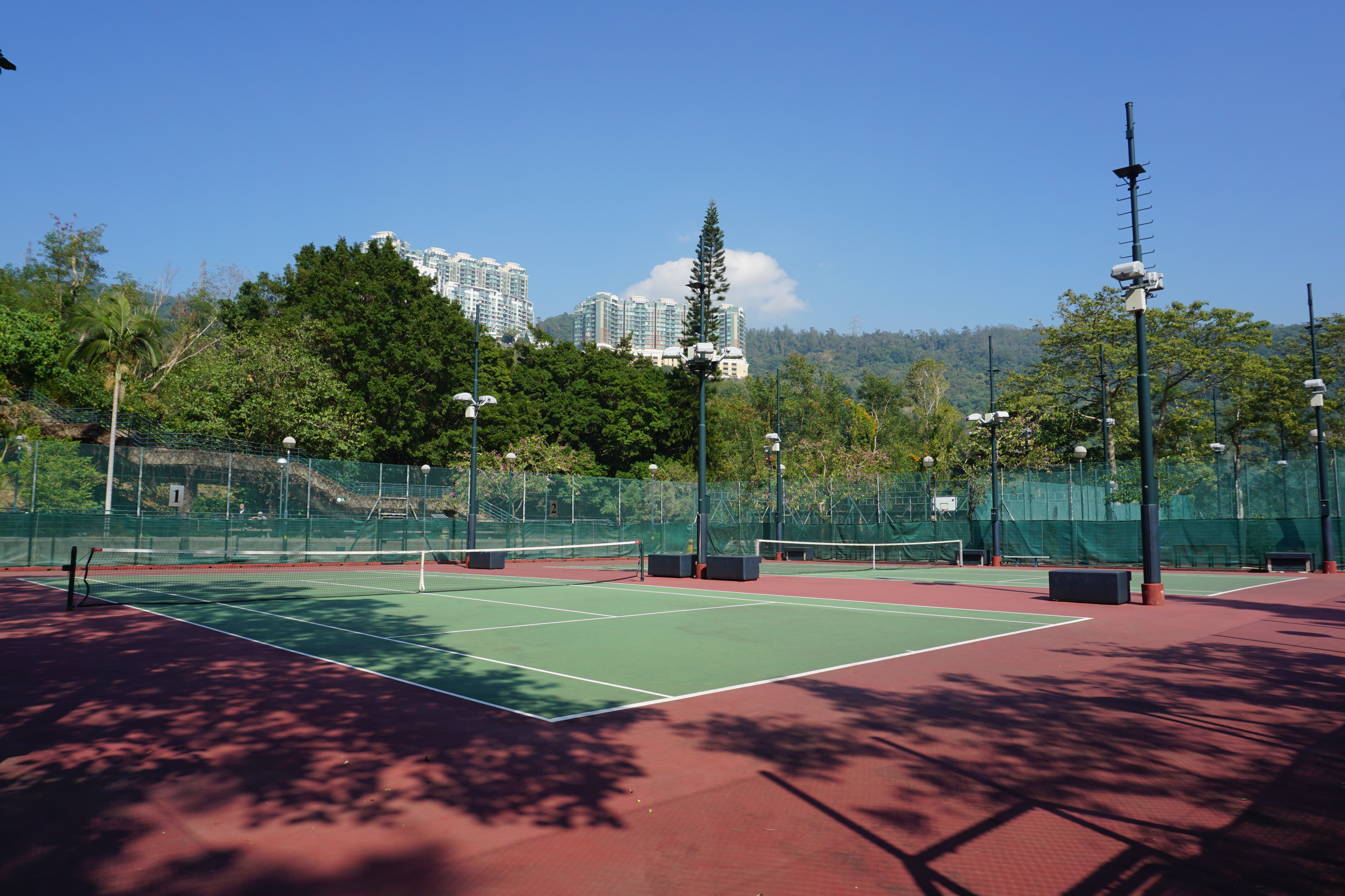 Tsuen King Circuit Playground in Tsuen Wan, Hong Kong.